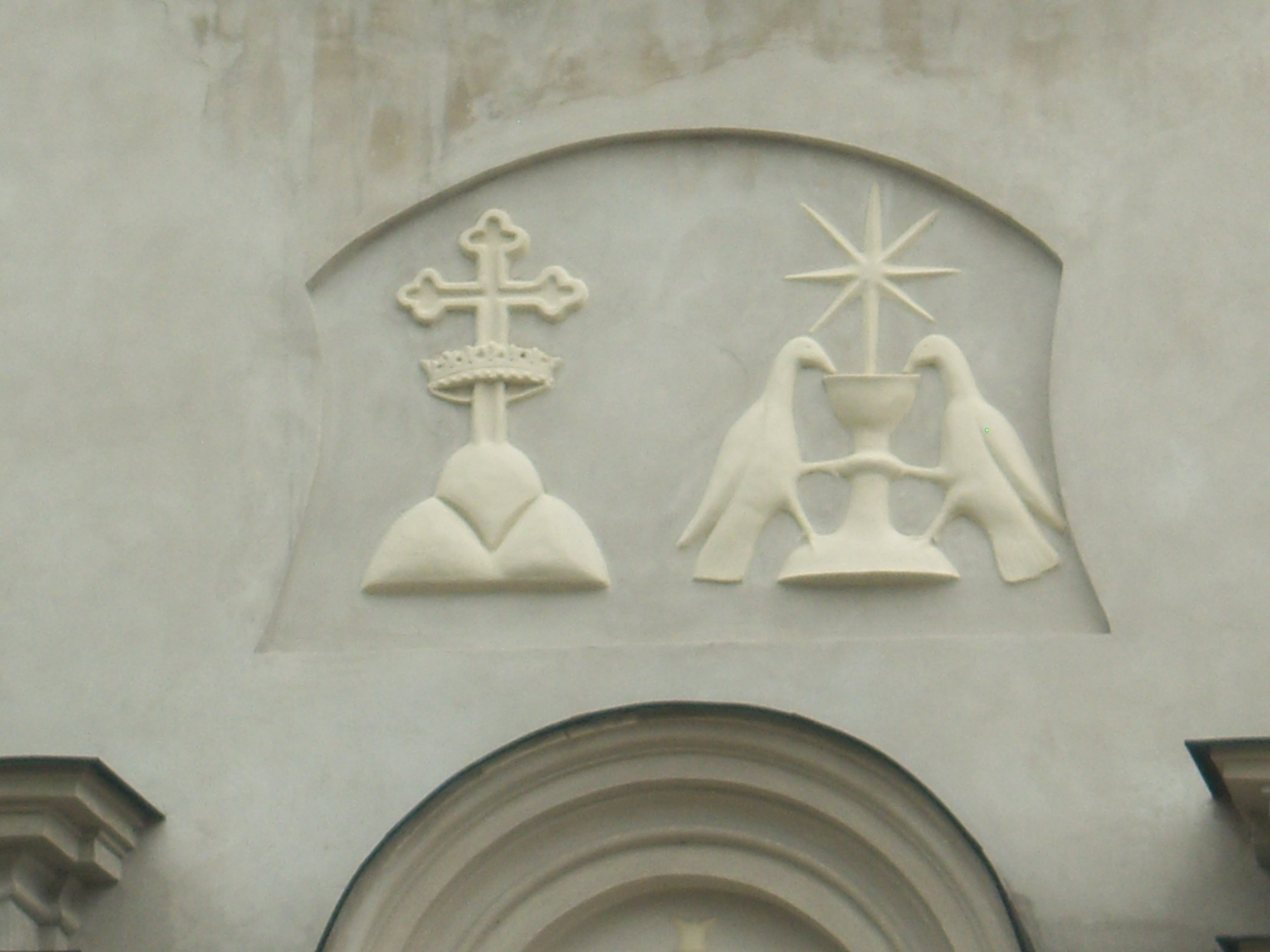 Monte Corona and Camaldoli Emblmems on Camaldolese Church in Bieniszew in Poland